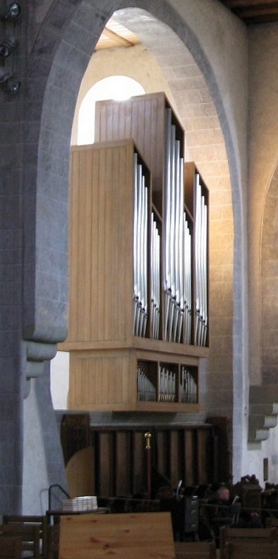 Mittelzell, Reichenau, Lake de Constance, Germany: Cathedral, view from choir